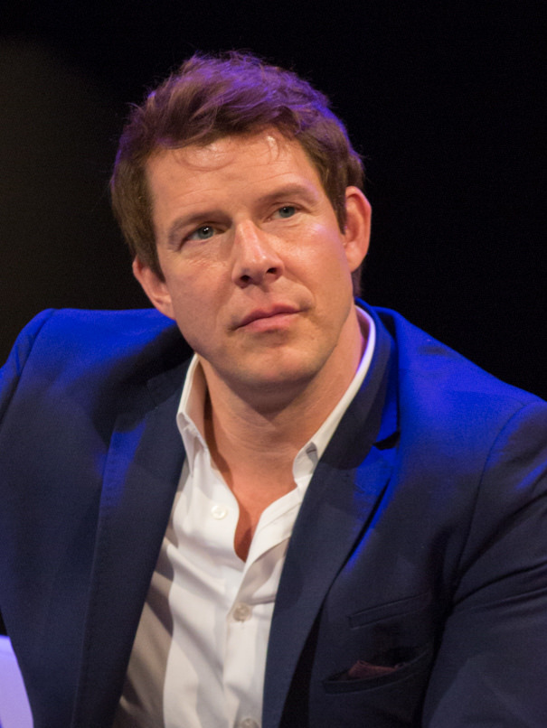 ATX Television Festival: Season 5 (2016)